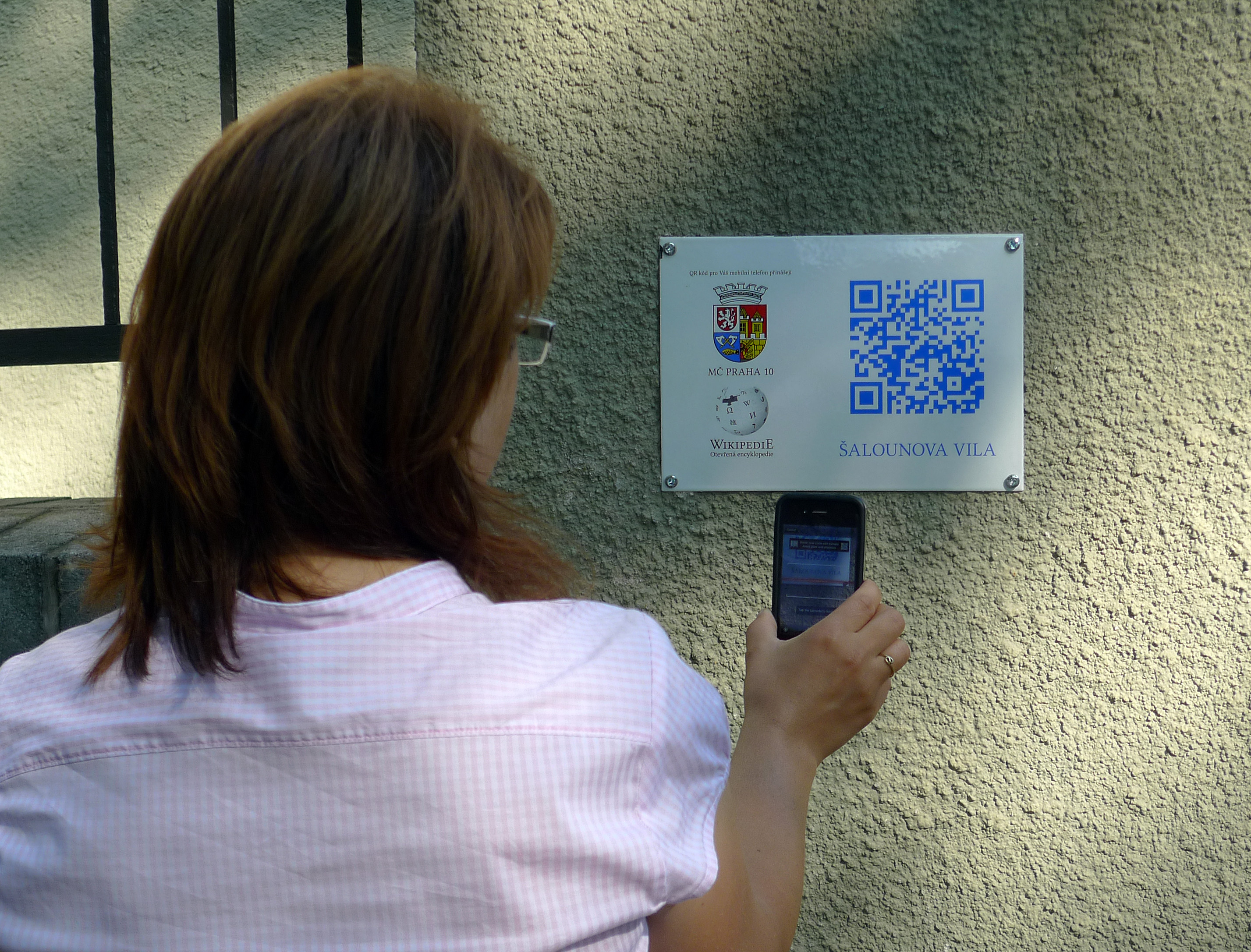 QR code on Šaloun house in Prague 10 – first QRpedia plate in the Czech Republic (2012)